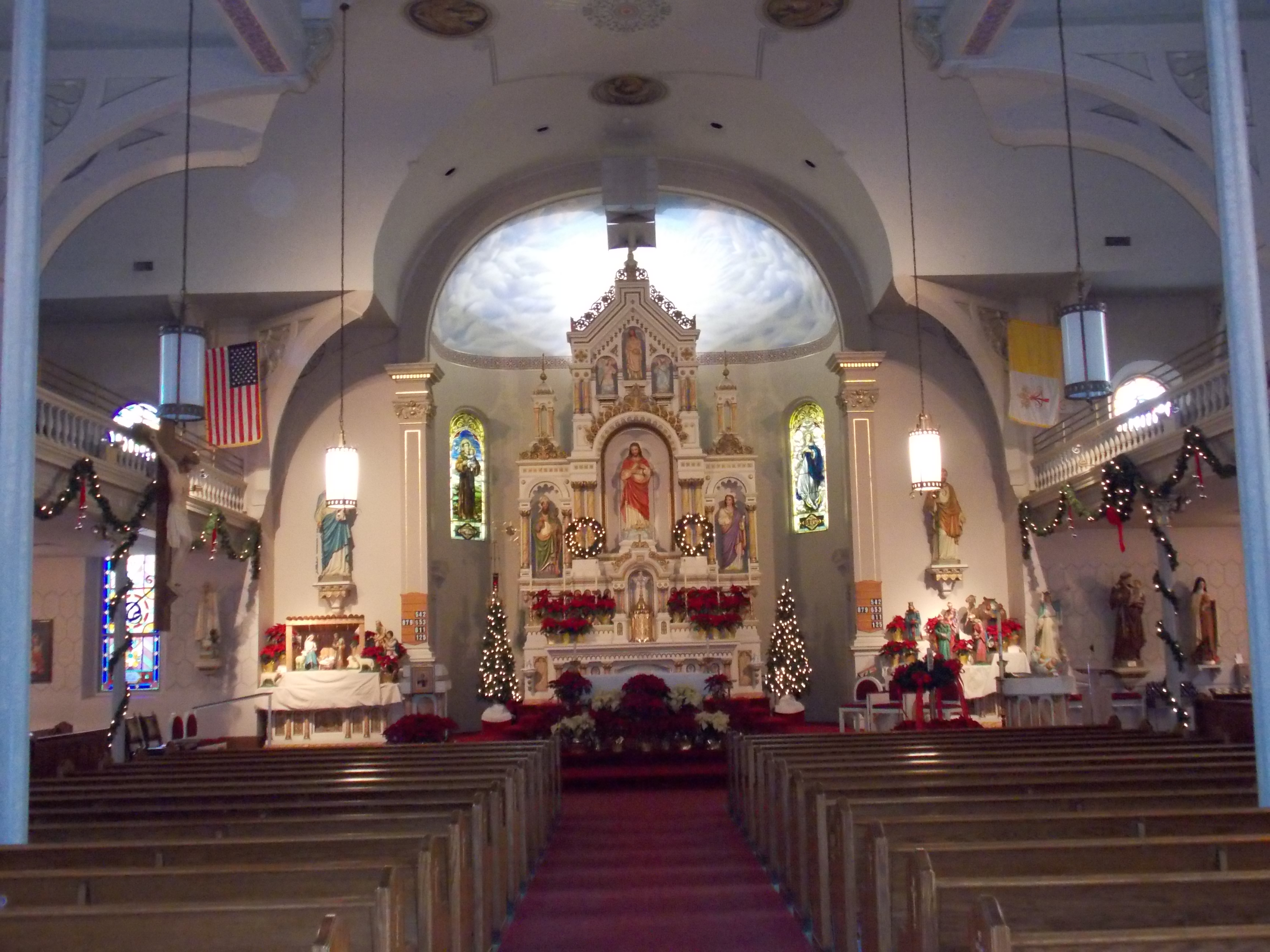 The gallery of St. Anthony's Church in Davenport, Iowa.